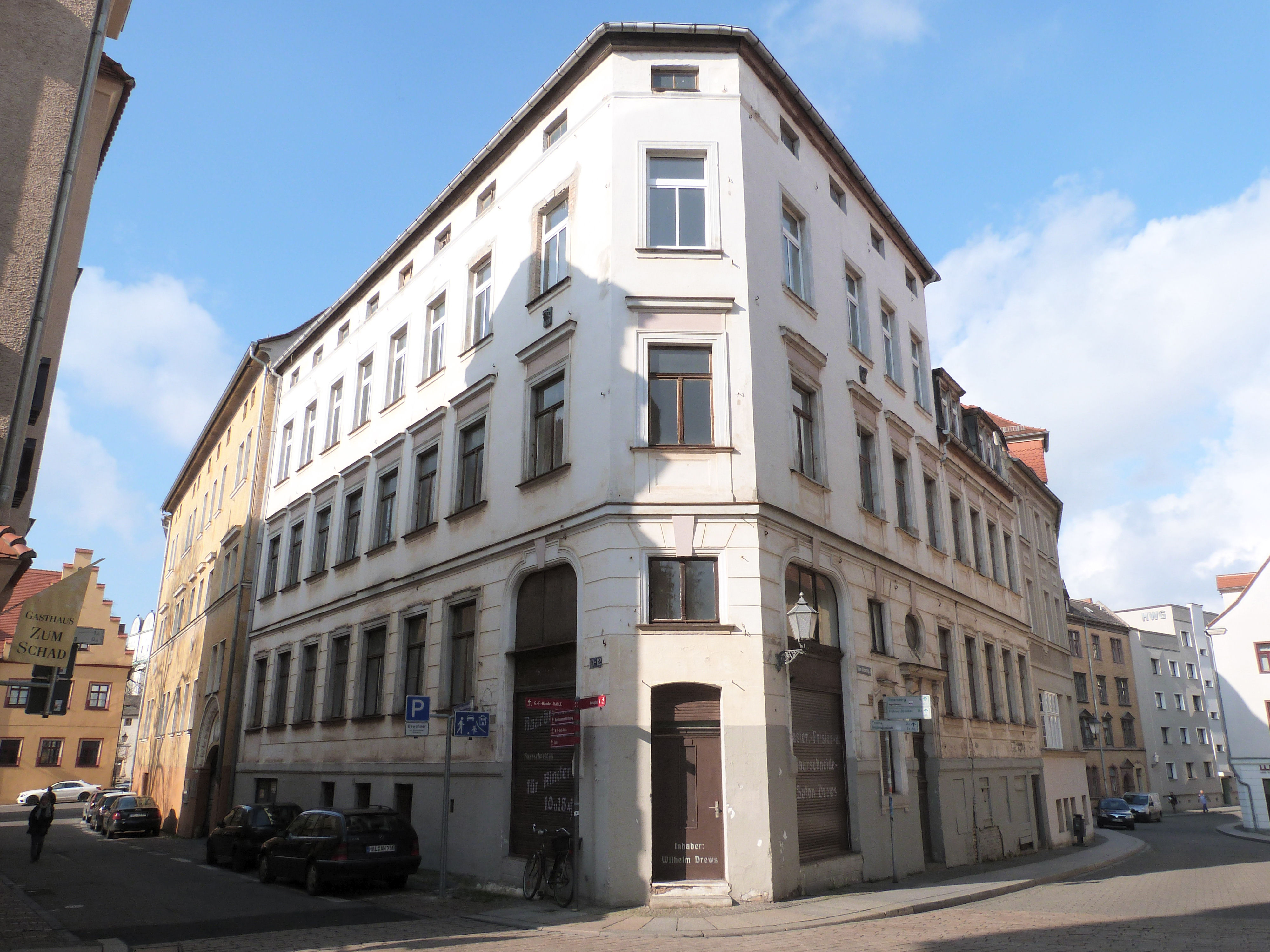 House No. 1 Kleine Ulrichstrasse, Halle (Saale)